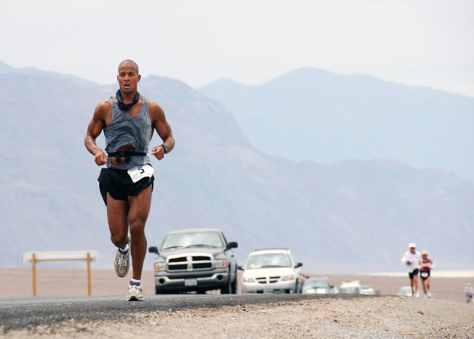 SAN DIEGO (July 23, 2007) - U.S. Navy Special Operator 1st Class David Goggins runs 135 miles through Death Valley, California in the Kiehl's Badwater Ultra Marathon that began in the Badwater Basin, the lowest point in the United States. Goggins finished the race in 3rd place 25 hours later on top of Mount Whitney, the highest point in the Continental United States. Goggins final time was a 4-hour improvement over his 2006 5th place finish. U.S. Navy photo by Mass Communication Specialist Seaman Brandon Rogers (RELEASED)